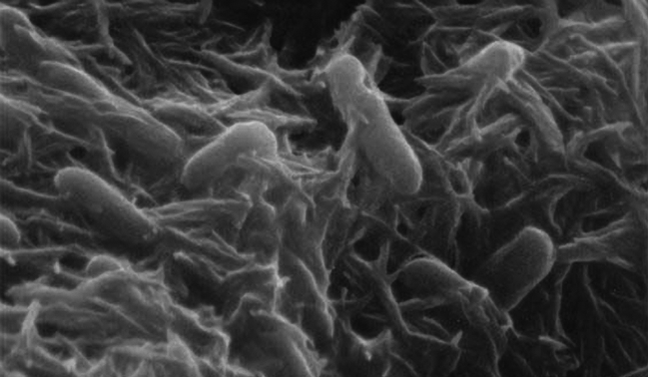 The bacterium Shewanella oneidensis strain MR-1 (above) may offer a biological solution for remediating US sites contaminated during the manufacture of nuclear weapons.